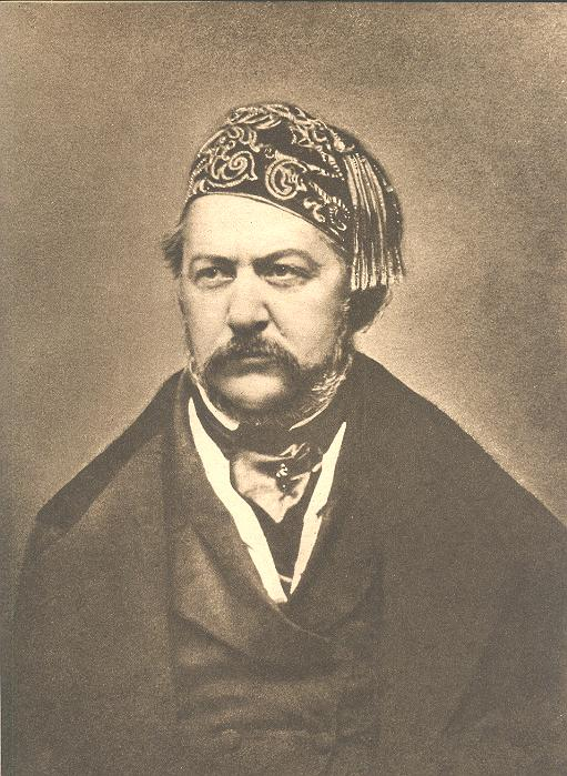 Mikhail Glinka in the 1850's